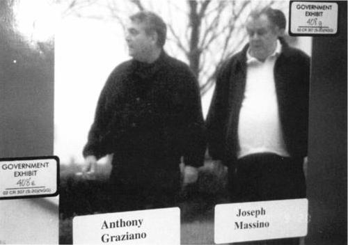 Joe Massino spotted leaving his doctor’s office in Staten Island with Anthony "T. G." Graziano, a member of Massino’s crime cabinet. The FBI suspected that Massino used the doctor’s office in 2001 as a safe rendezvous for mob chitchats. (FBI Surveillance Photo)